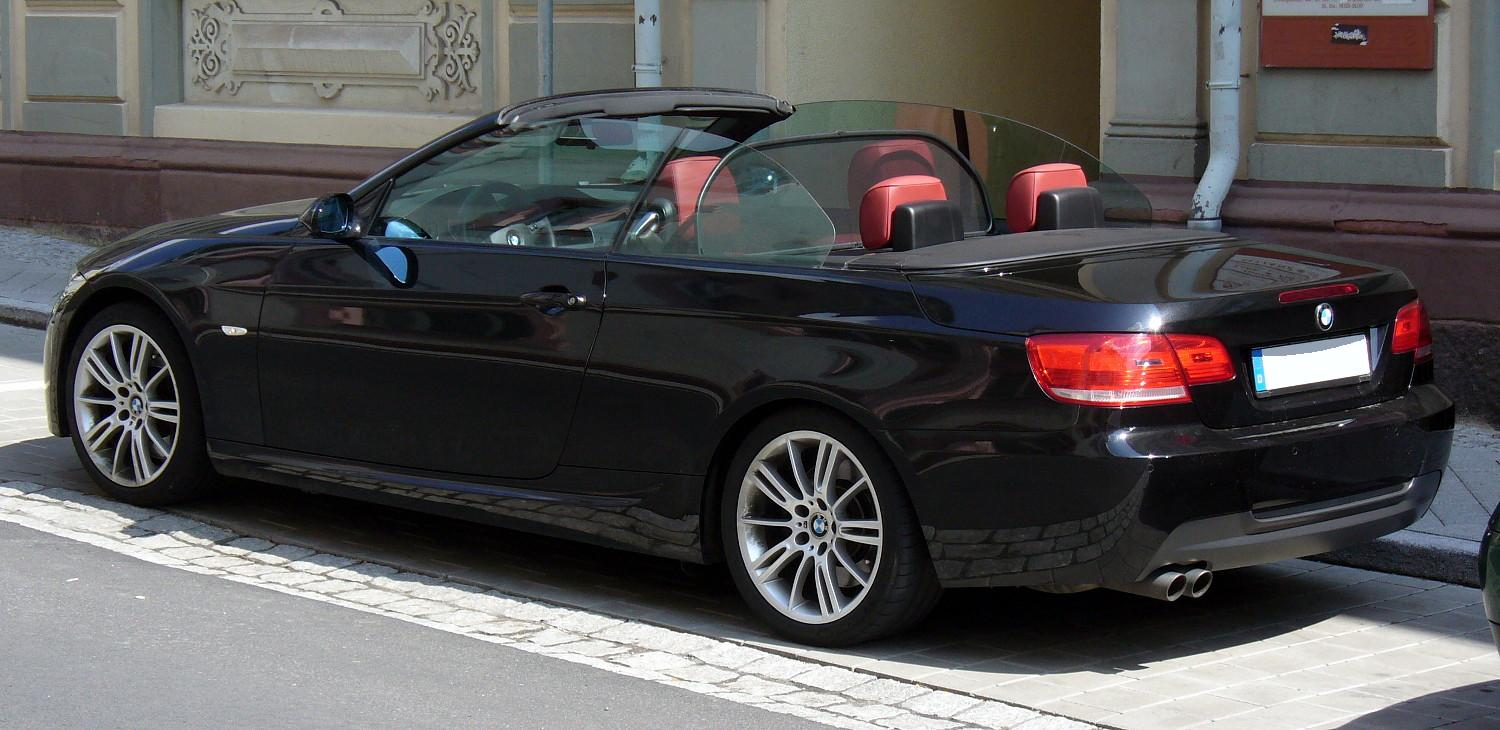 BMW E93 M-Sport